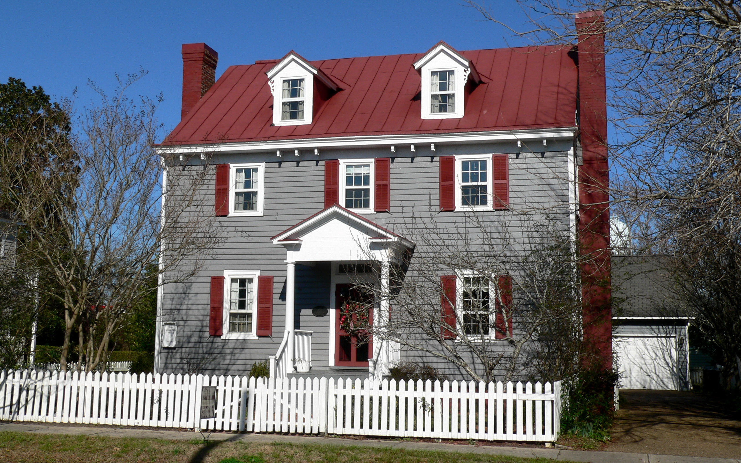 National Register of Historic Places. Located at 804 Pollock Street in New Bern, North Carolina. Built 1805 (Photo accurate as of October 2012)